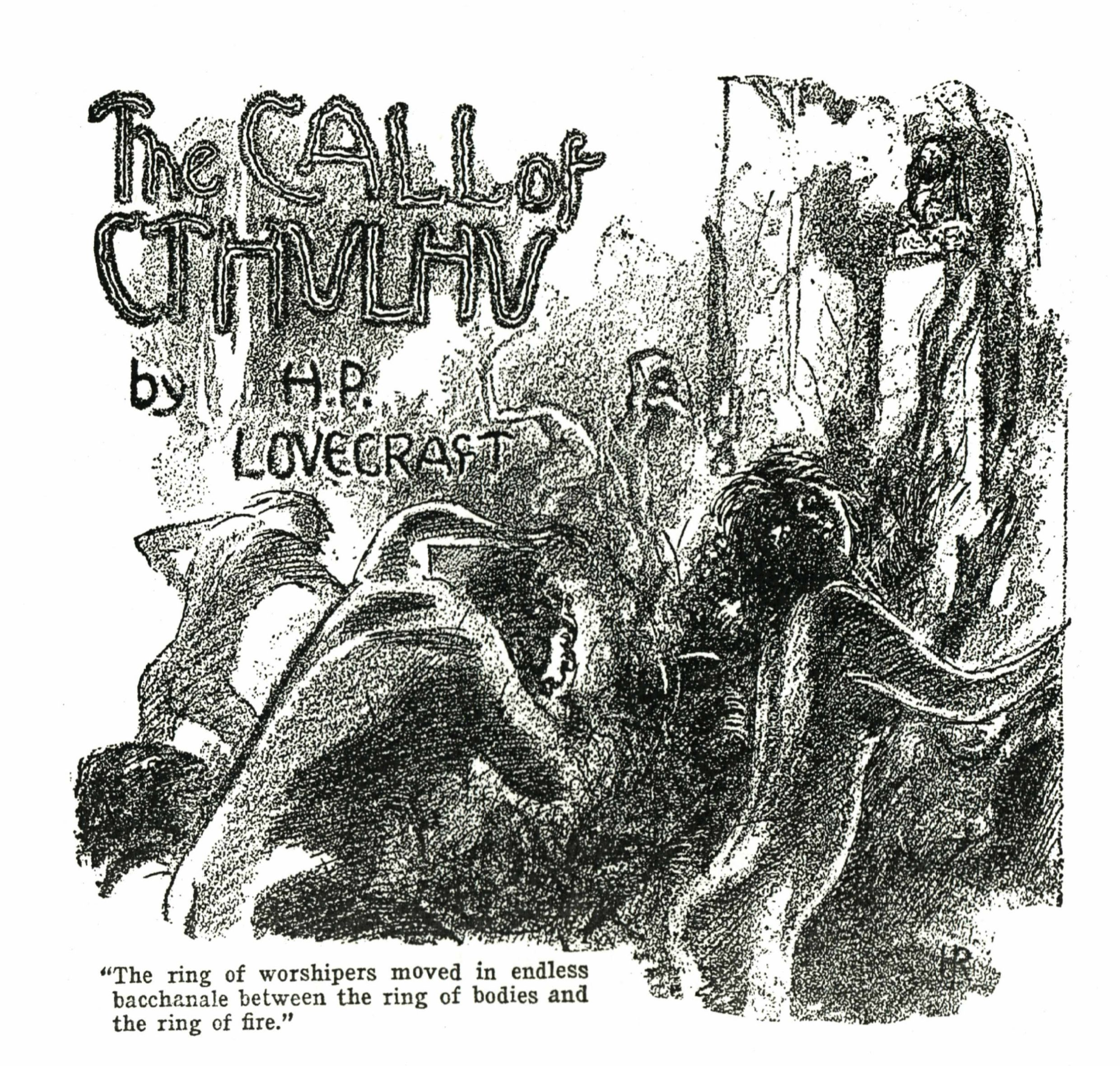 Illustration by Hugh Rankin of a scene of H. P. Lovecraft's "The Call of Cthulhu". First published in Weird Tales (February, 1928).